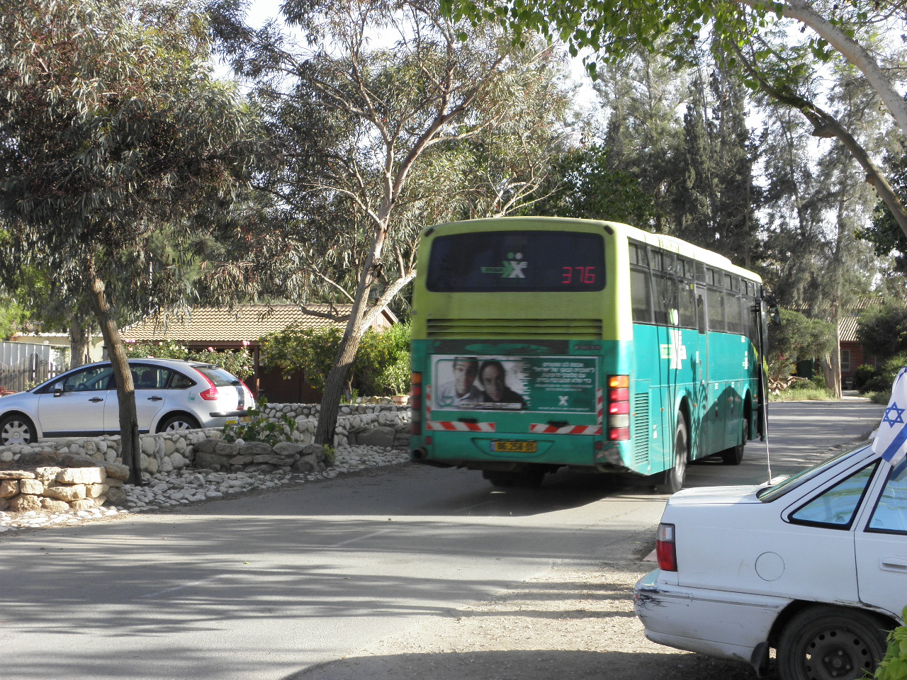 Egged Ta'avura's bus route 376 at its final destination, Tze'elim